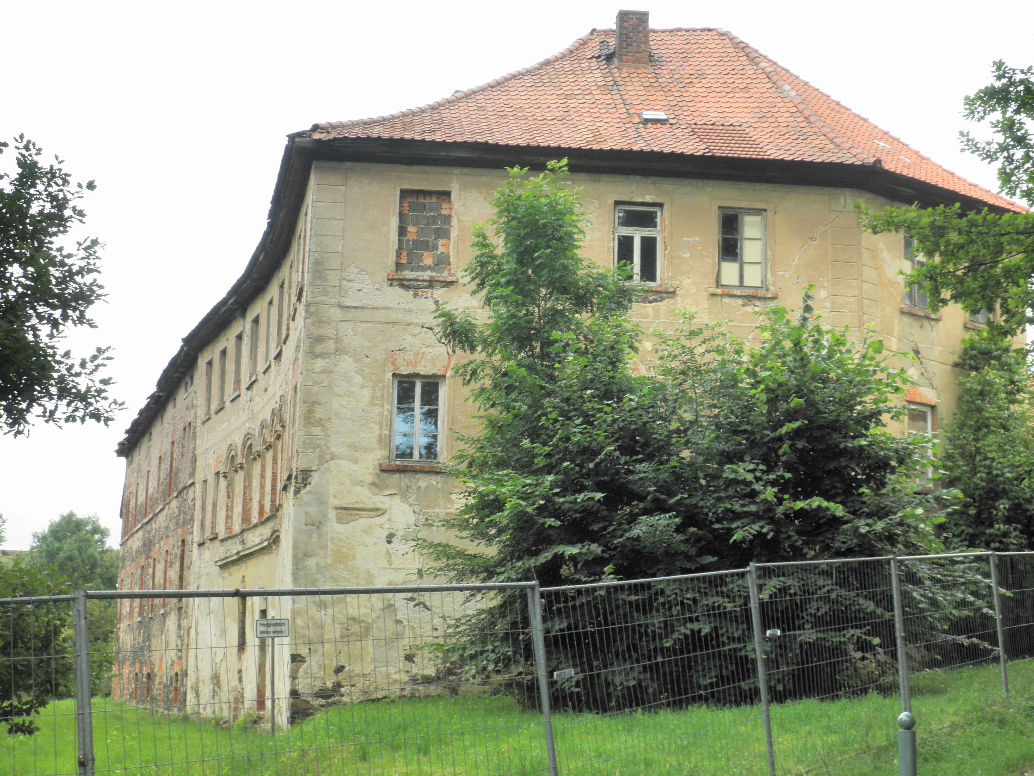 Manor Building in Lausnitz in Thuringia